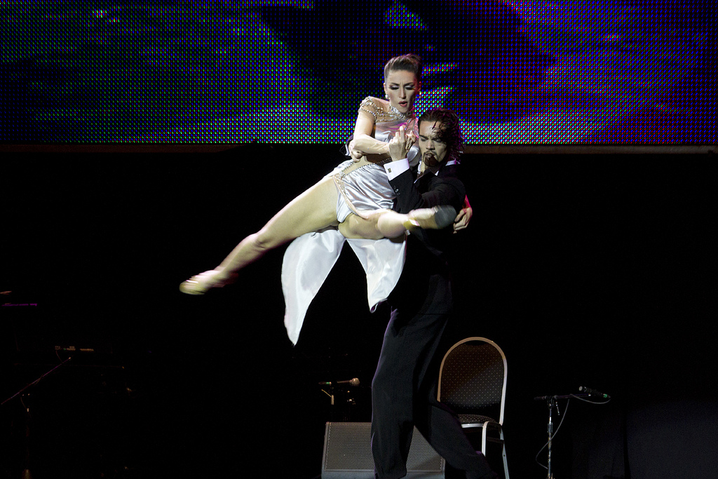 Tango Dance World Championship 2011 Buenos Aires, tango escenario. Foto: Estrella Herrera)